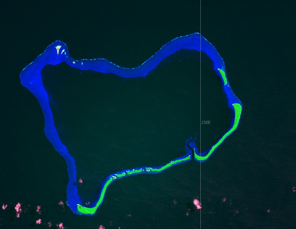 Ant Atoll, Senyavin Islands, Caroline Islands, Pacific Ocean